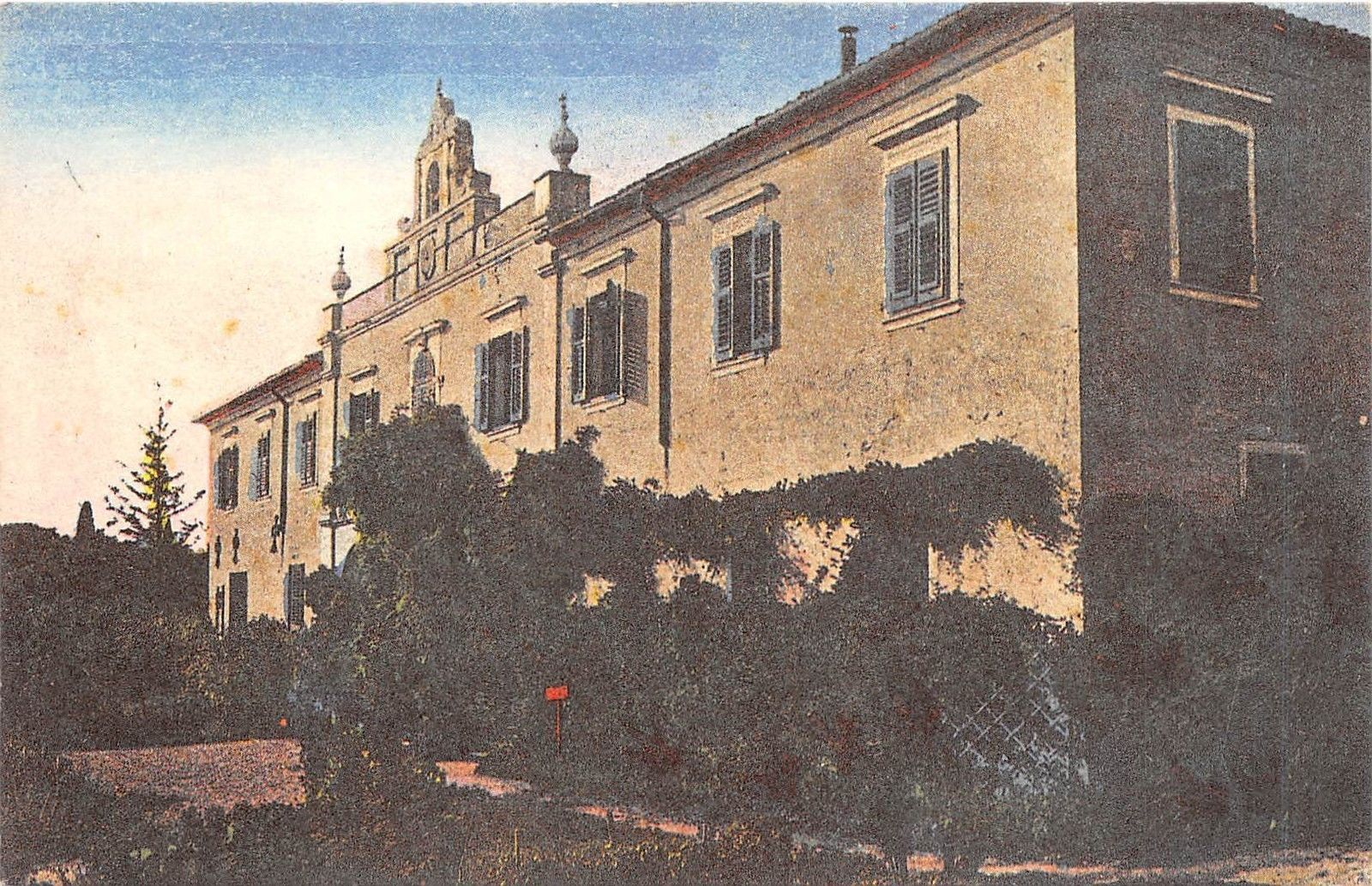 Postcard of Ankaran.